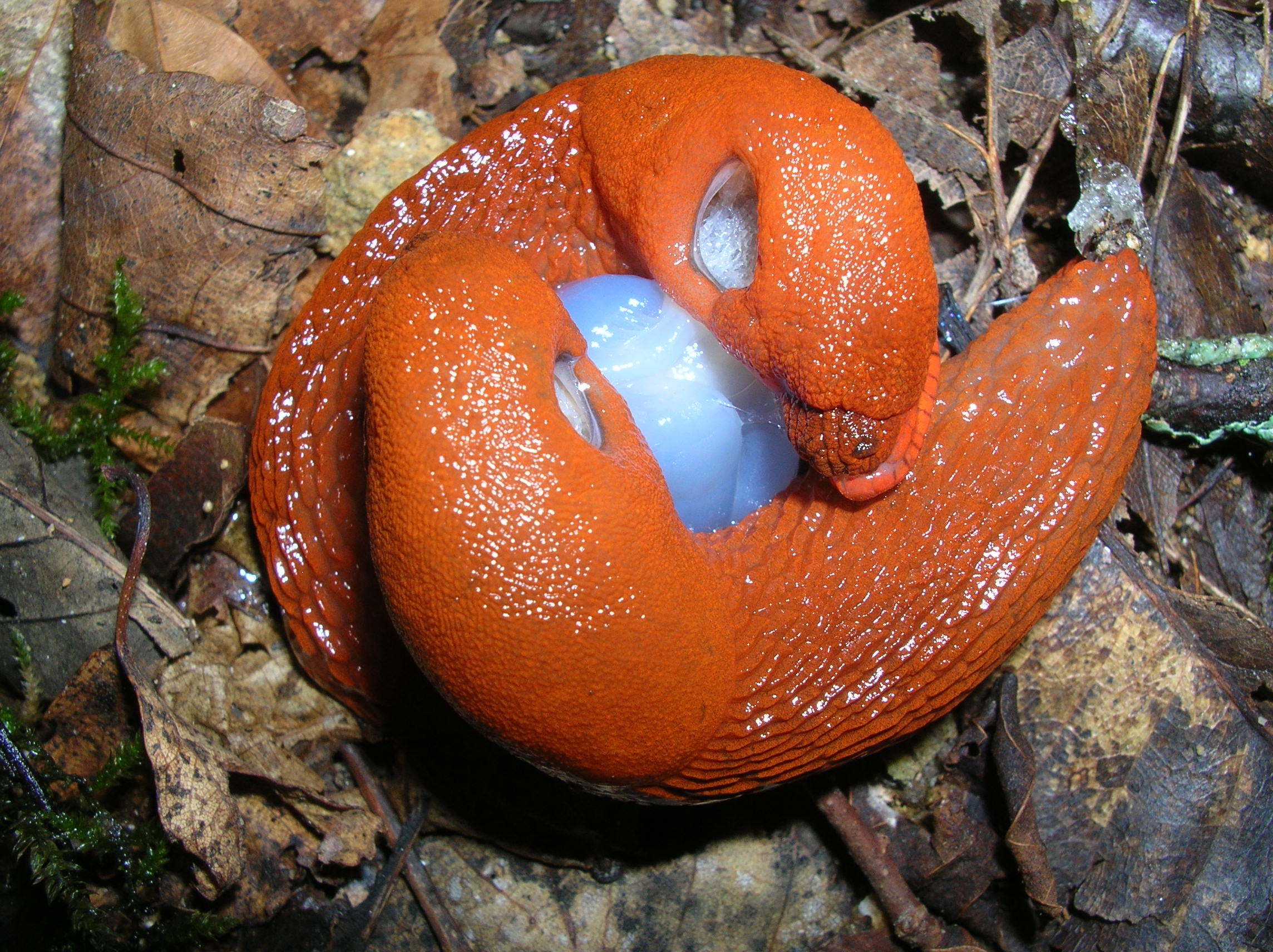 Photo of mating of Arion sp. from Limousin (France).